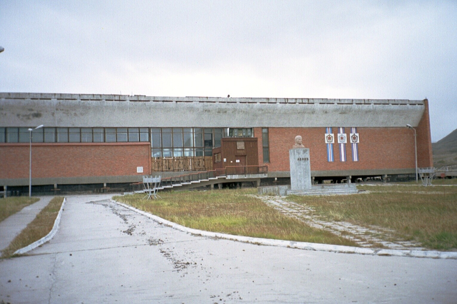 Central square with Lenin statue and Sports center in the ghost town of Pyramiden, Svalbard. Taken by myself, Eckhard Pecher, in July 2005 Mention of my name is not necessary within the Wikis.